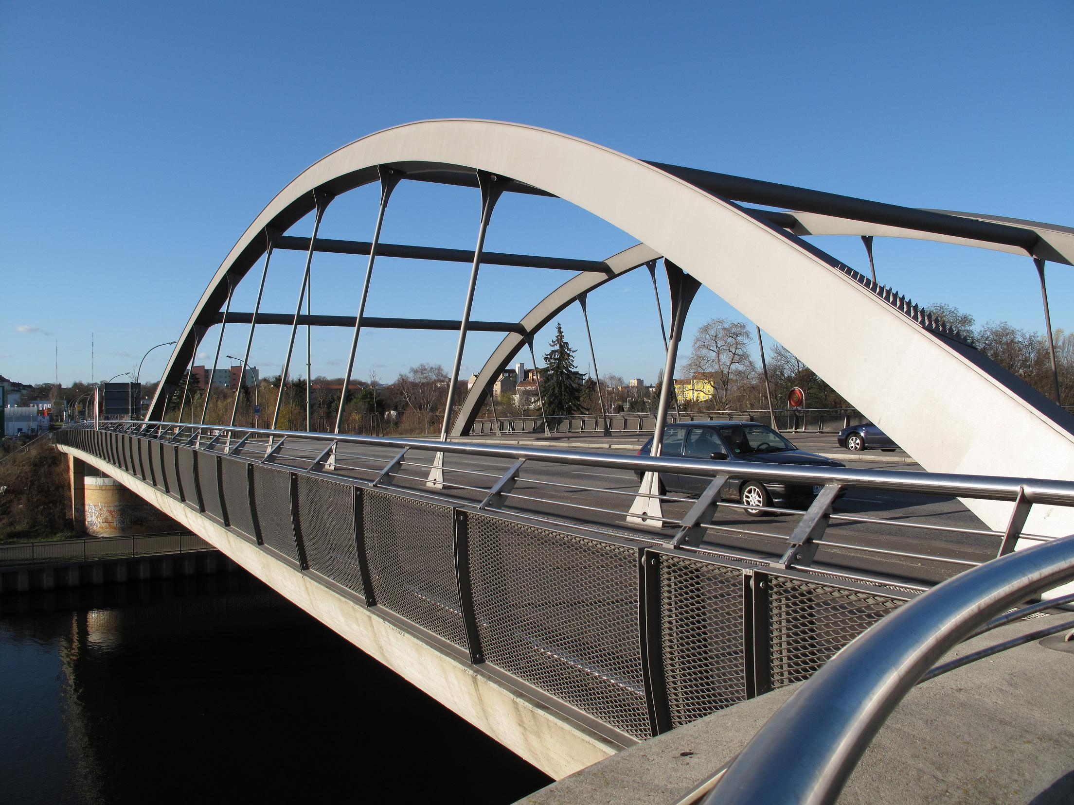 The „Neue Späthbrücke“ in Berlin-Britz is a street bridge of the Späthstraße crossing the Teltowkanal. The steel arch bridge was new built in 2002. Its named after the botanist Franz Späth.